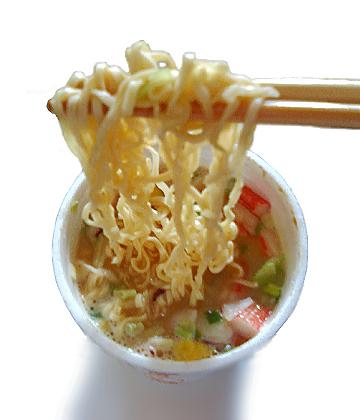 Cup noodles (seafood), taken by original uploader.